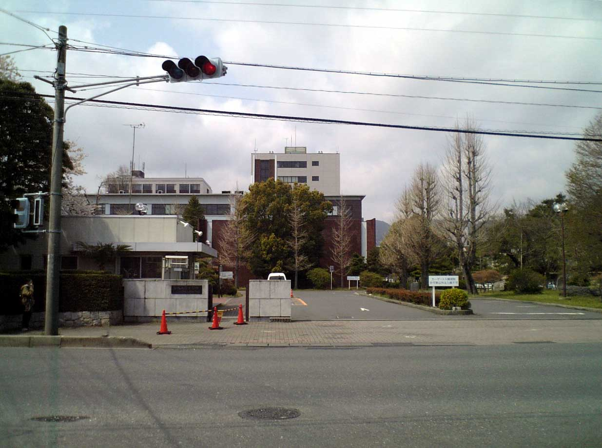 茨城大学日立キャンパス (Hitachi Campus of Ibaraki University, Japan.)